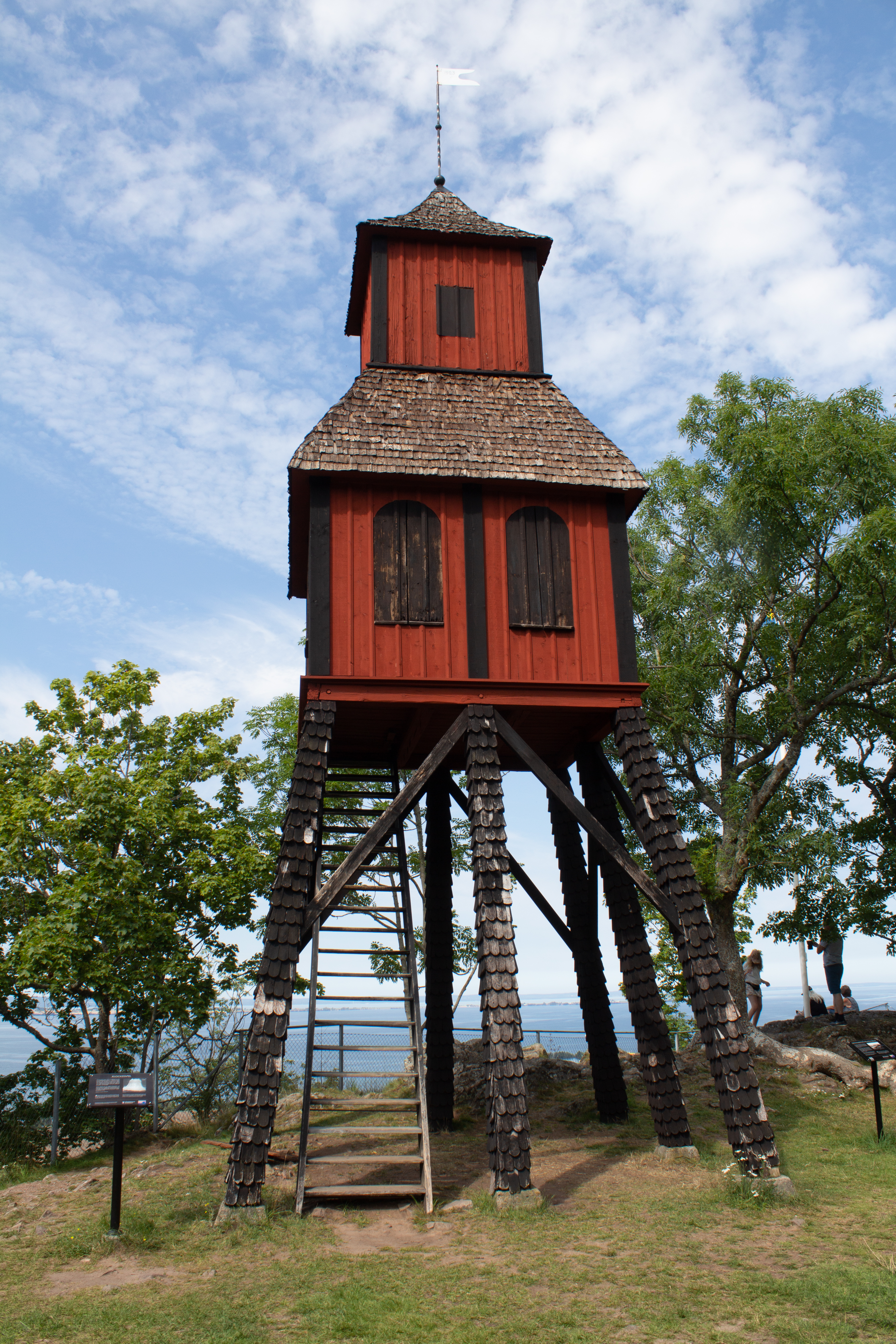 Klockstapeln på Grännaberget